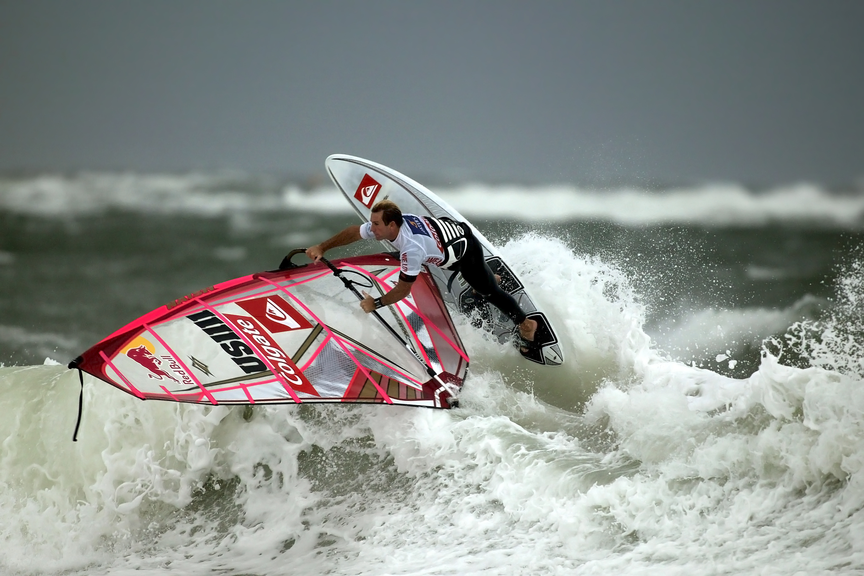 Robby Naish beim CWCS